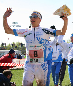 Jani Lakanen. Orienteer from Finland